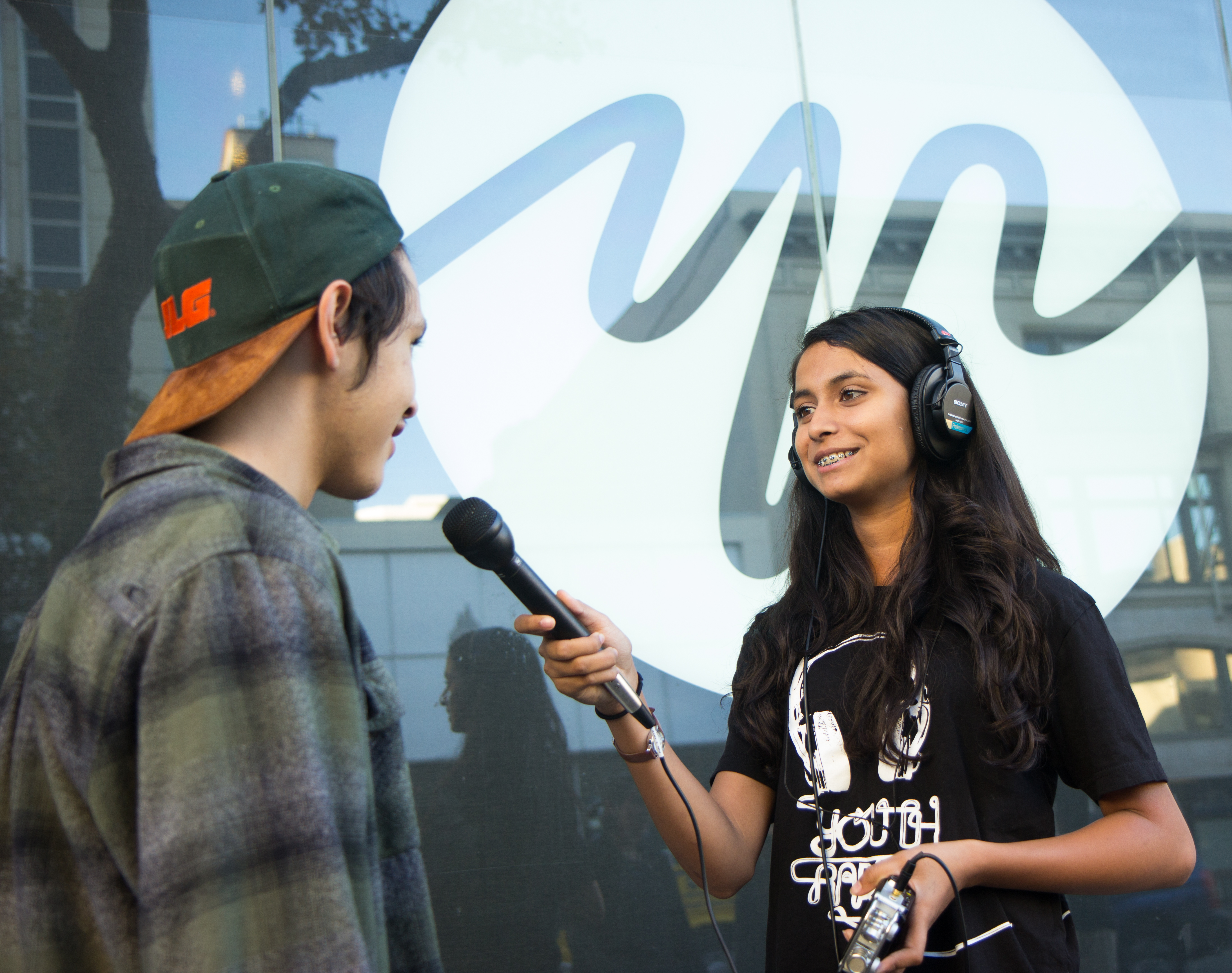 Youth Radio participants work and learn together to produce stories for national audiences.